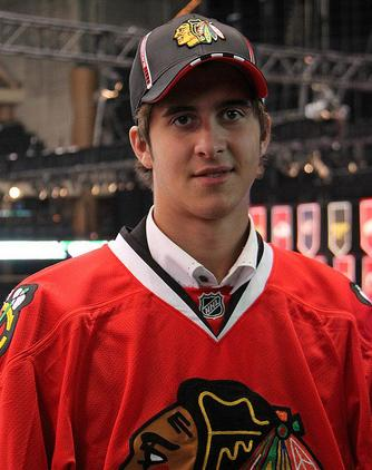 Phillip Danault, seen at the 2011 NHL Draft, where he was selected in the first round by the Chicago Blackhawks